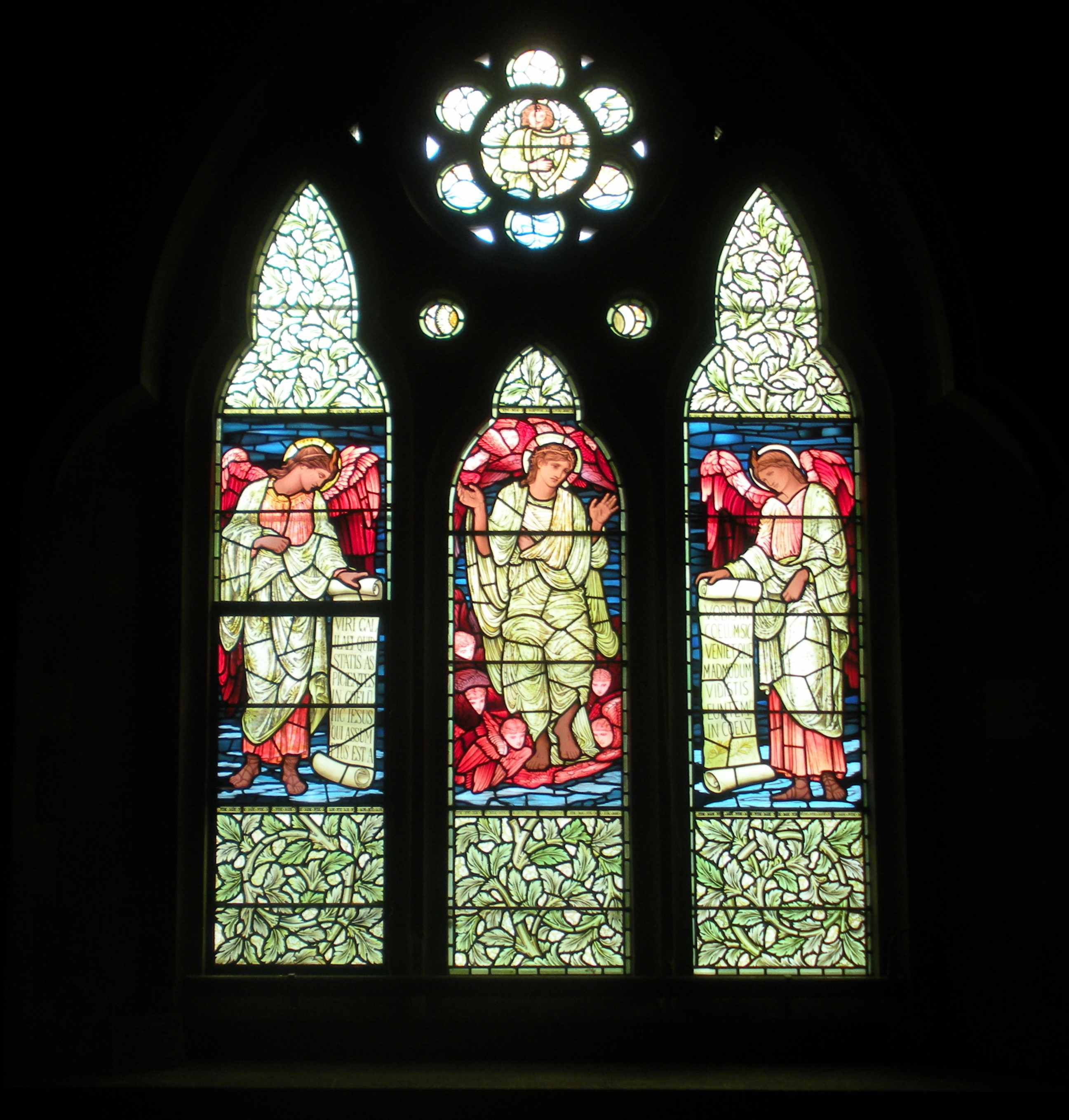 Stained-glass window of Jesus Christ flanked by angels designed by Edward Burne-Jones in the parish church of St Michael and All Angels, Waterford, Hertfordshire